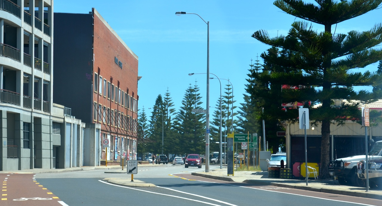 Elder Place looking toward railway station